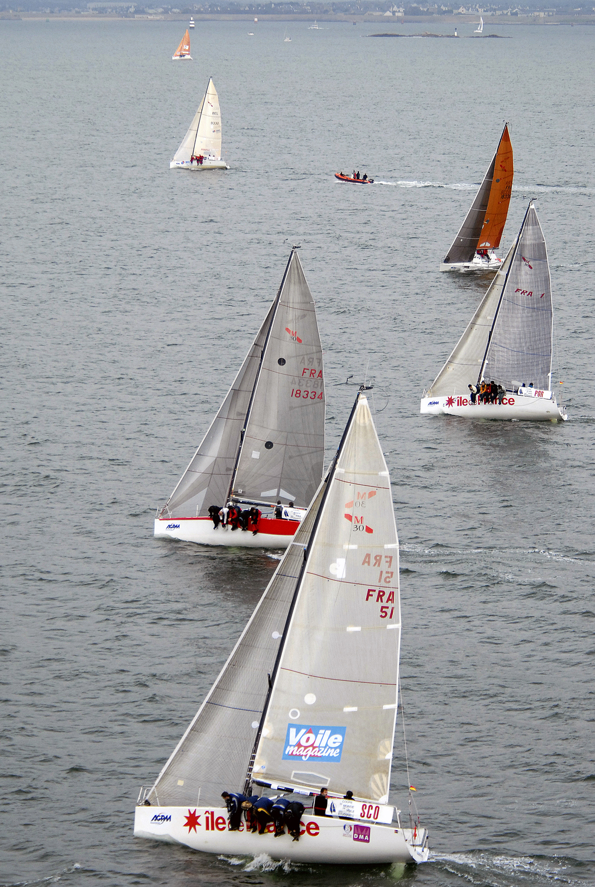 Boats during the Student Yachting World Cup 2006